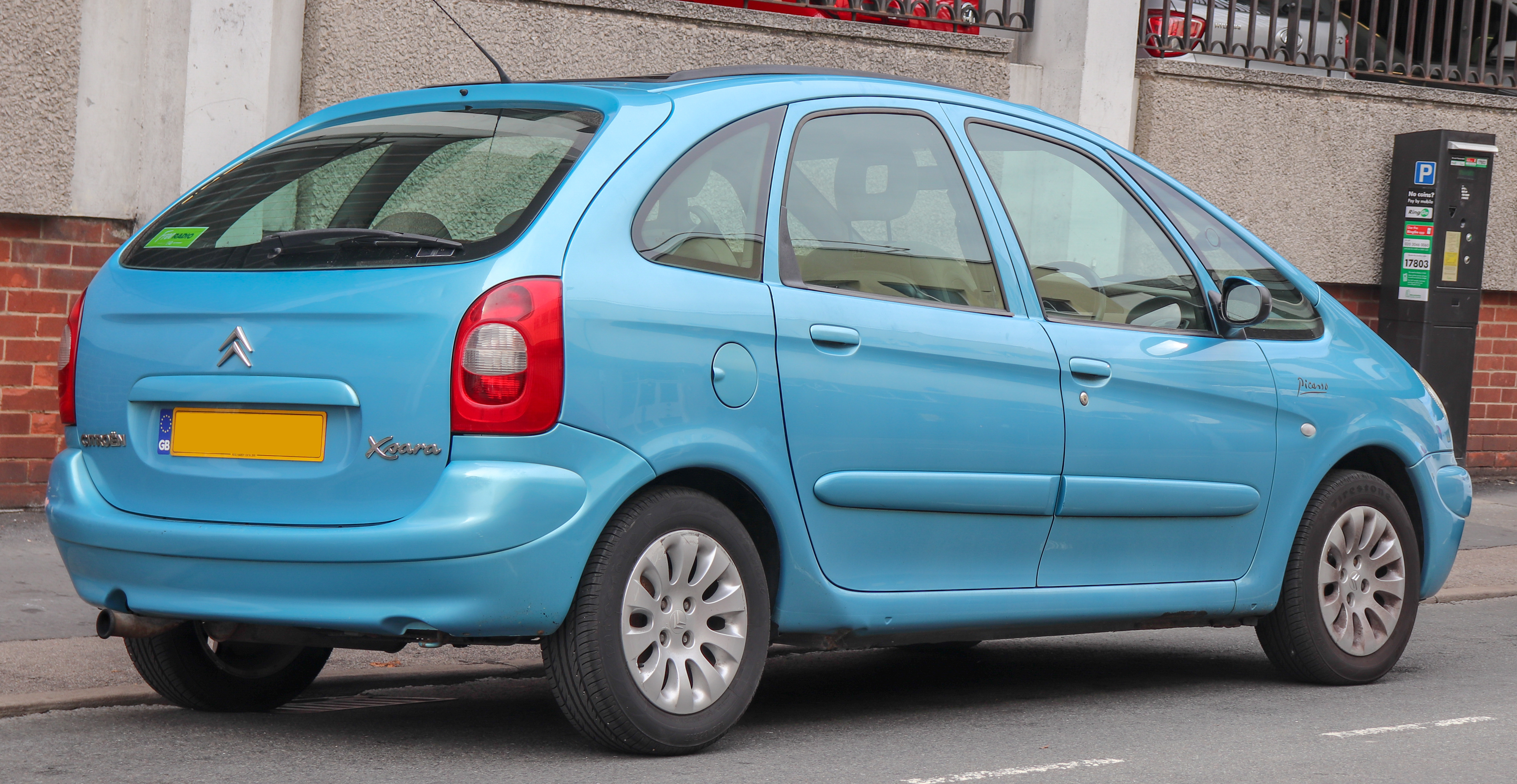 2002 Citroen Xsara Picasso HDi Exclusive 2.0 Rear Taken in Leamington Spa